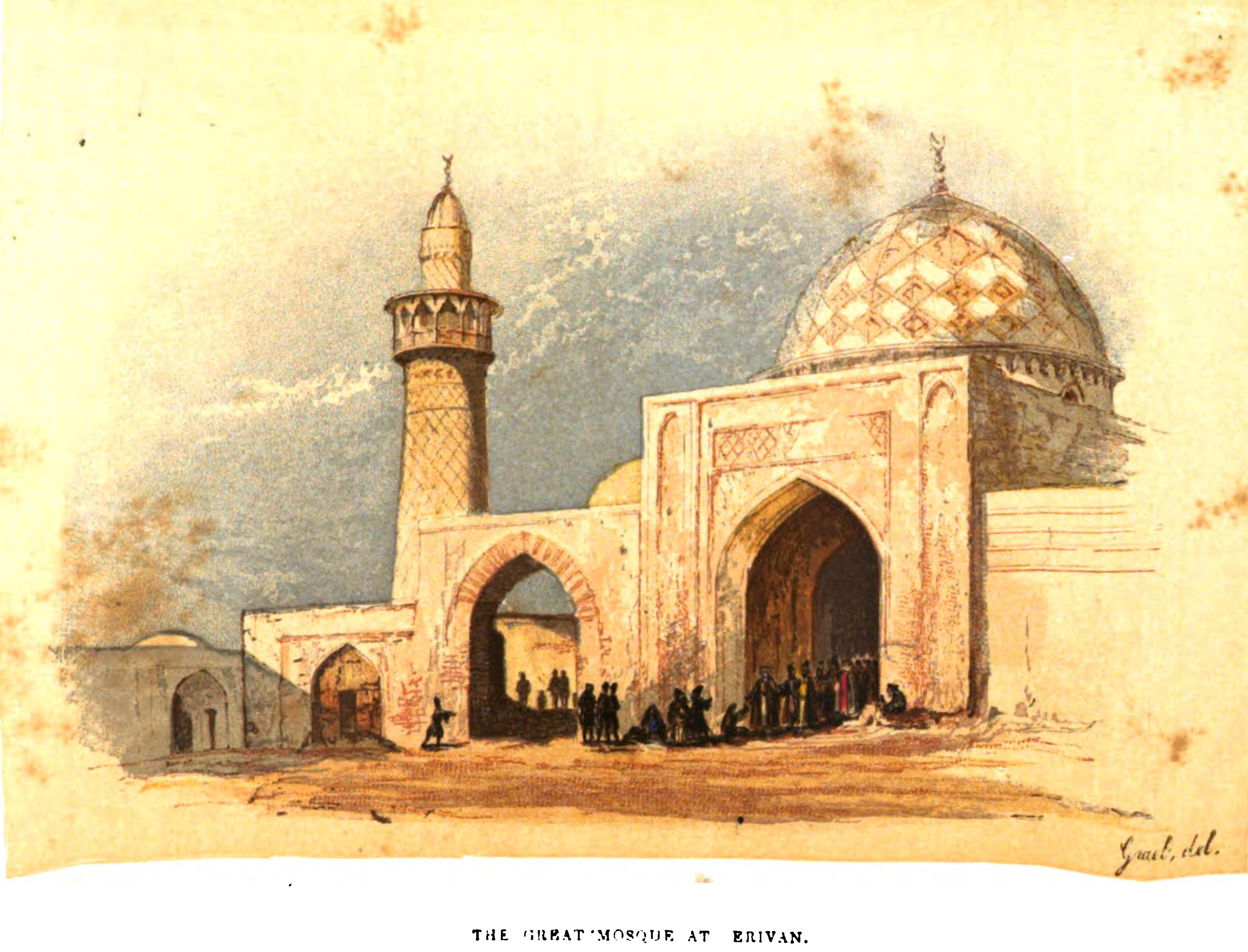 The Great Mosque at Erivan.Transcaucasia: sketches of the nations and races between the Black Sea and the Caspian